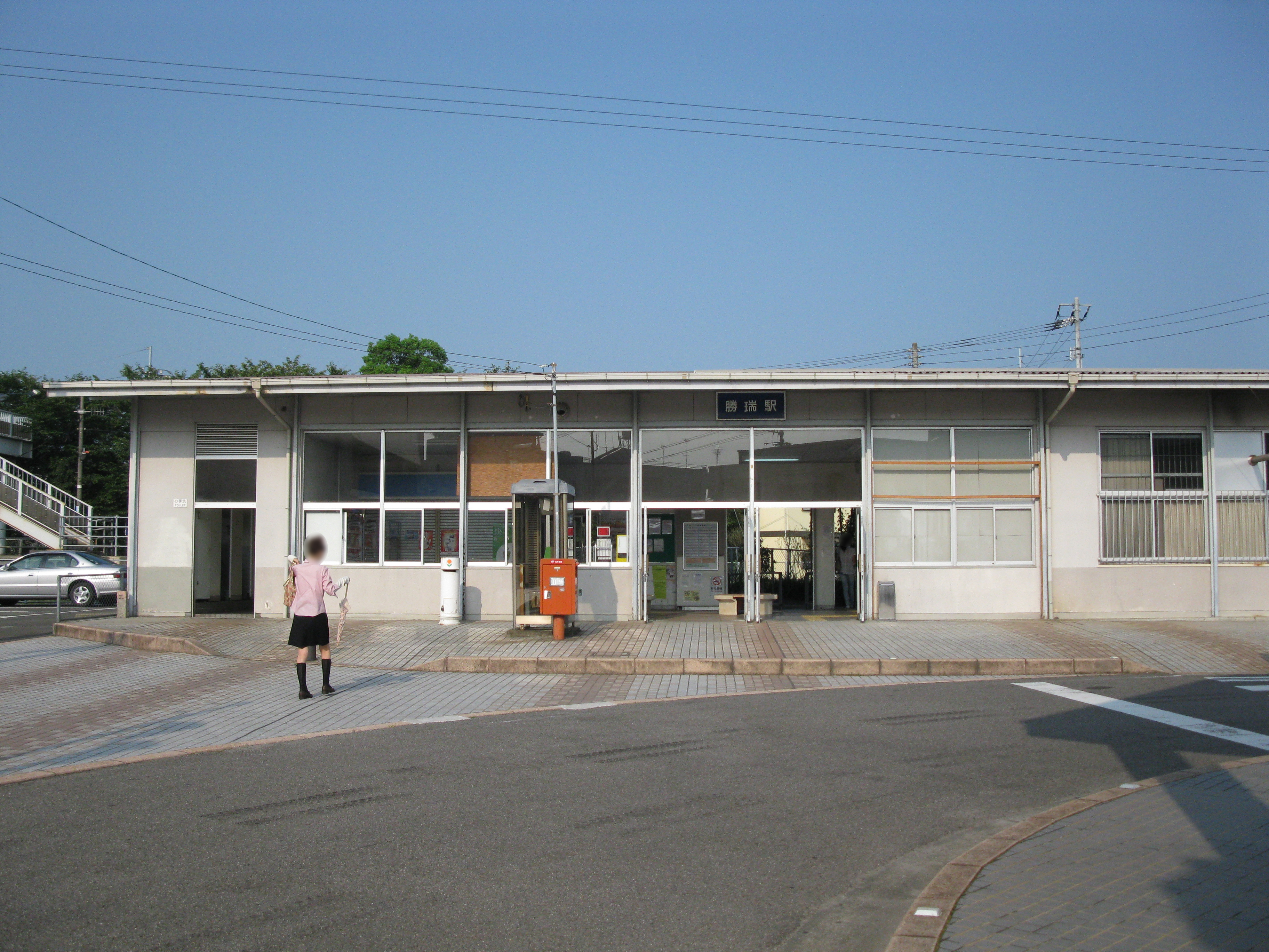 Shōzui Station building (Shikoku Railway(JR Shikoku) Kōtoku Line)